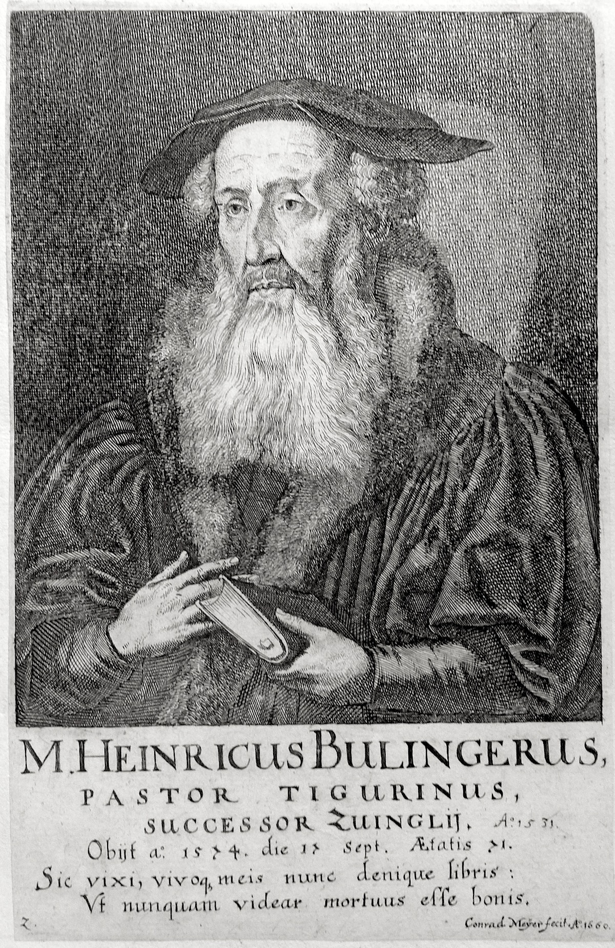 Heinrich Bullinger